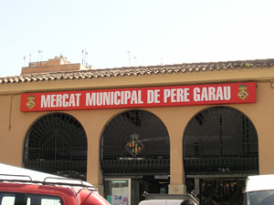 Pedro Garau market in Palma de Mallorca (Spain)